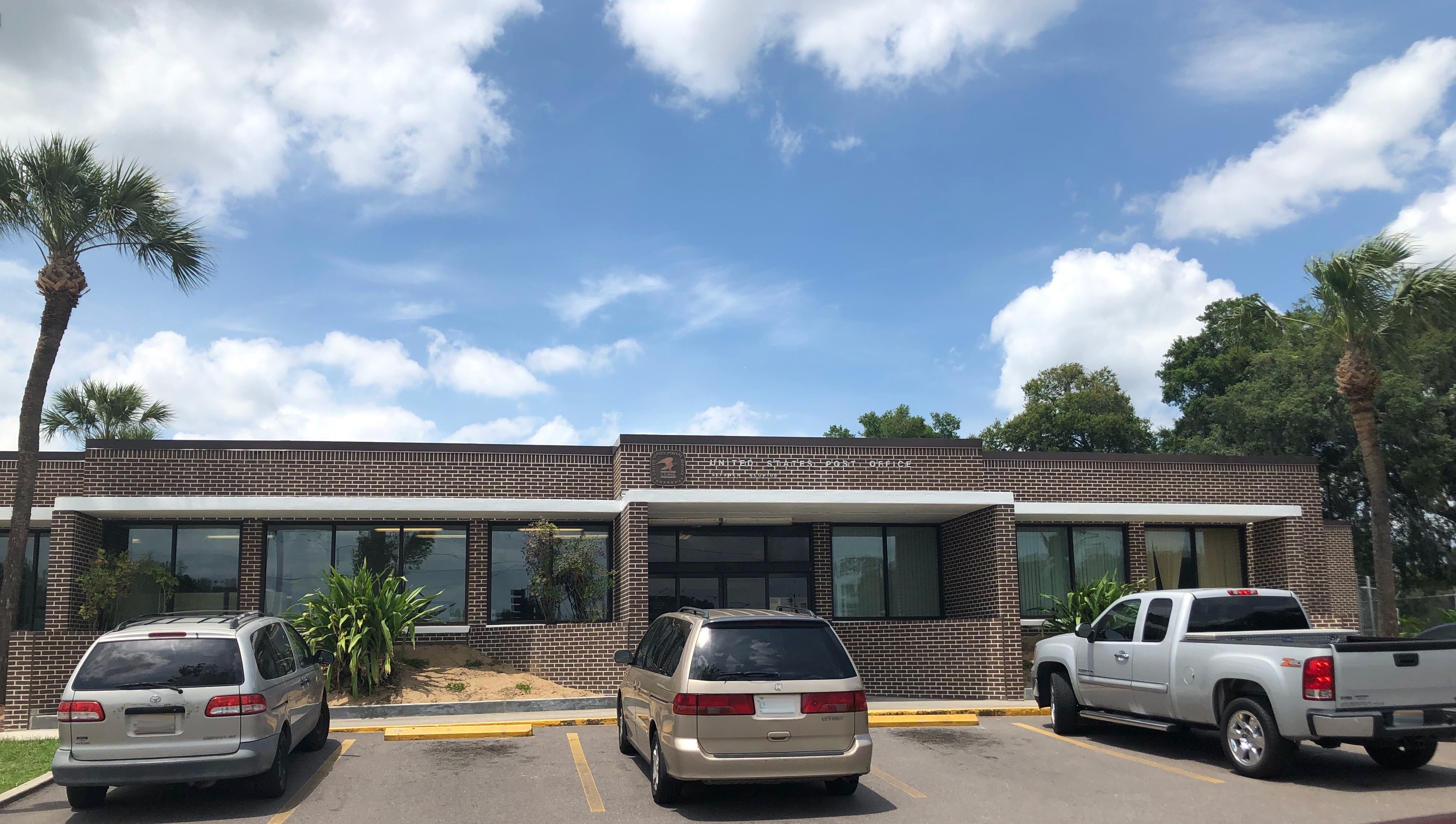 The post office in Seffner, Florida. License plates on vehicles have been blurred.